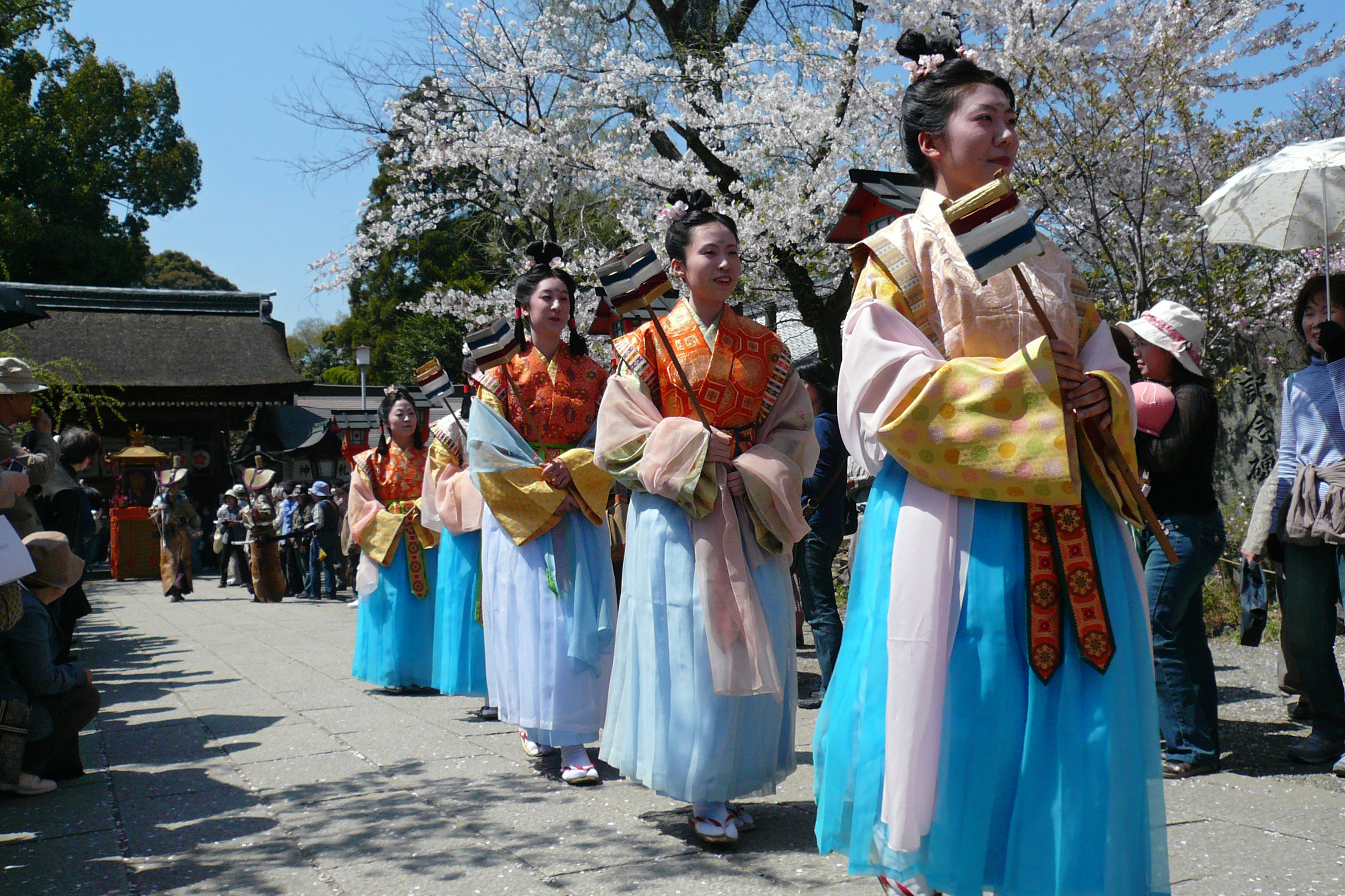 Hirano-sakura-matsuri at Hirano-jinja, Kyoto, Kyoto prefecture, Japan.